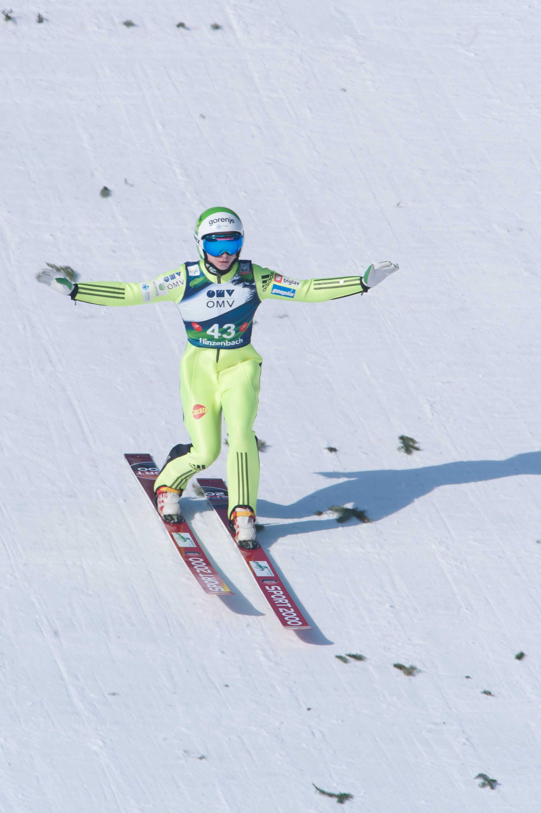 FIS Ski Jumping World Cup Hinzenbach Sun 1 Feb 2015